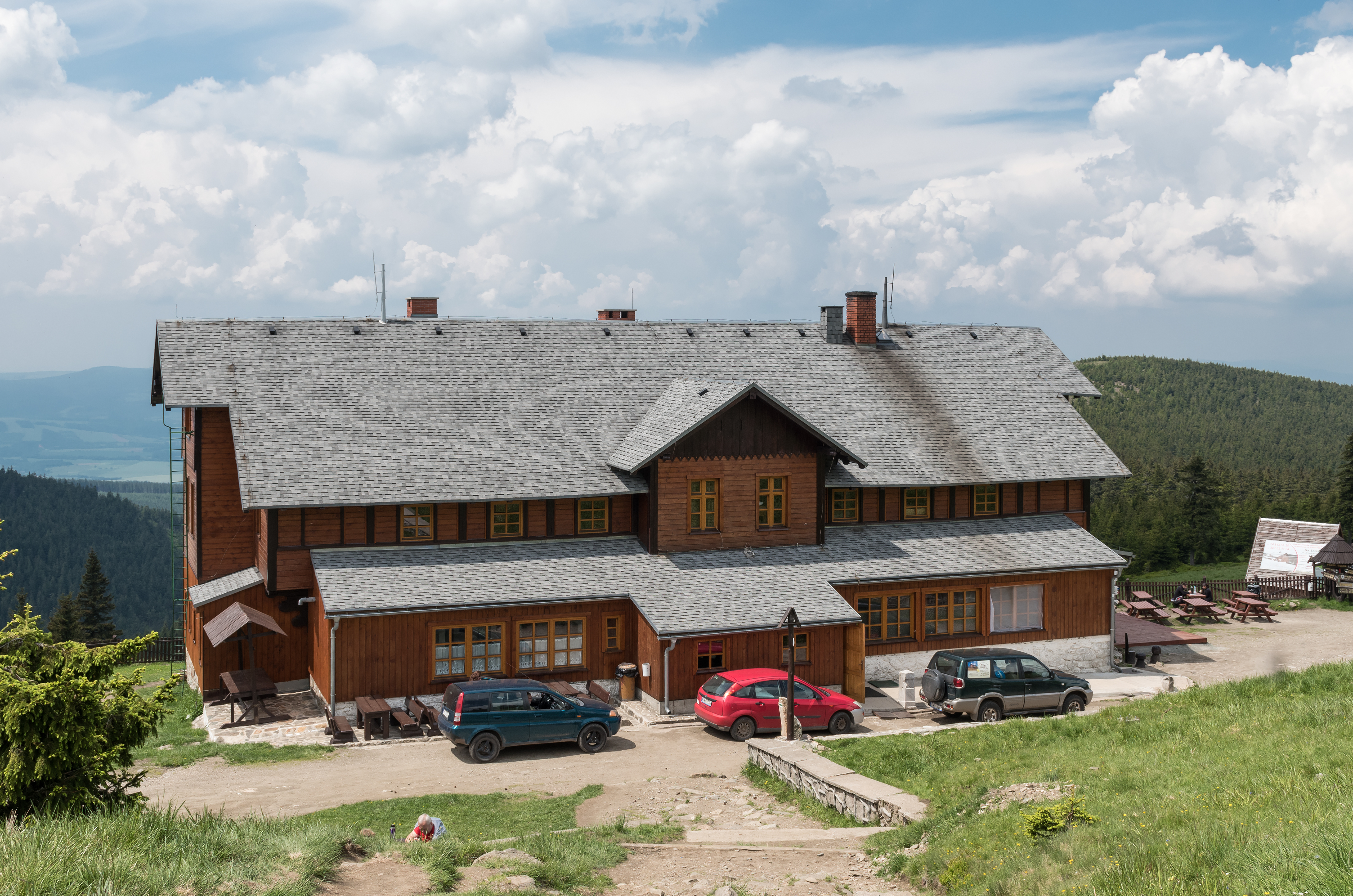 Na Śnieżniku hostel